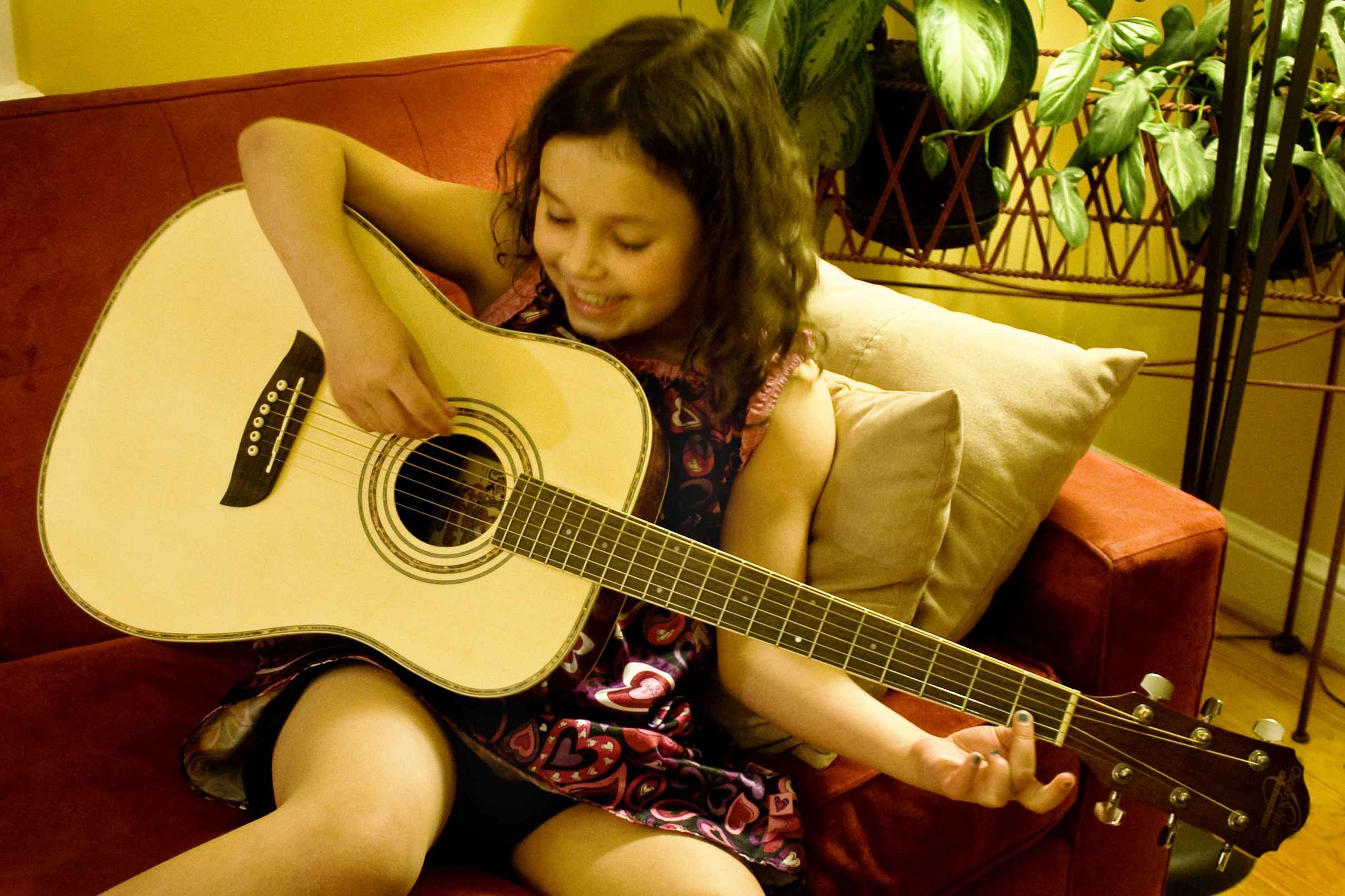 Broke the guitar out today. She hit for the cycle on music - recorder, piano, and guitar. Nice.